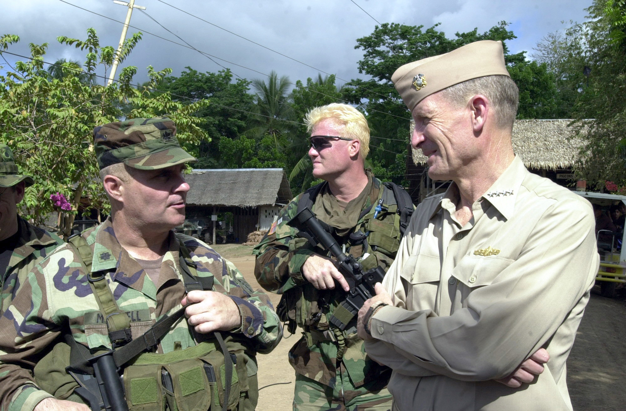 Basilan, Lomita, Republic of Philippines (Apr. 15, 2002) -- U.S. Navy Admiral Dennis Blair, Commander in Chief, U.S. Pacific Command, meets with U.S. Special Forces during a brief tour of the region. U.S. Special Forces personnel are deployed here as members of Joint Task Force 510 advising, training and assisting the Philippine Army in the pursuit of Abu Sayyaf bandits, believed associated with the Al Qaida terrorist network, in support of Operation Enduring Freedom. U.S. Navy photo by Photographer’s Mate 2nd Class Andrew Meyers. (RELEASED)